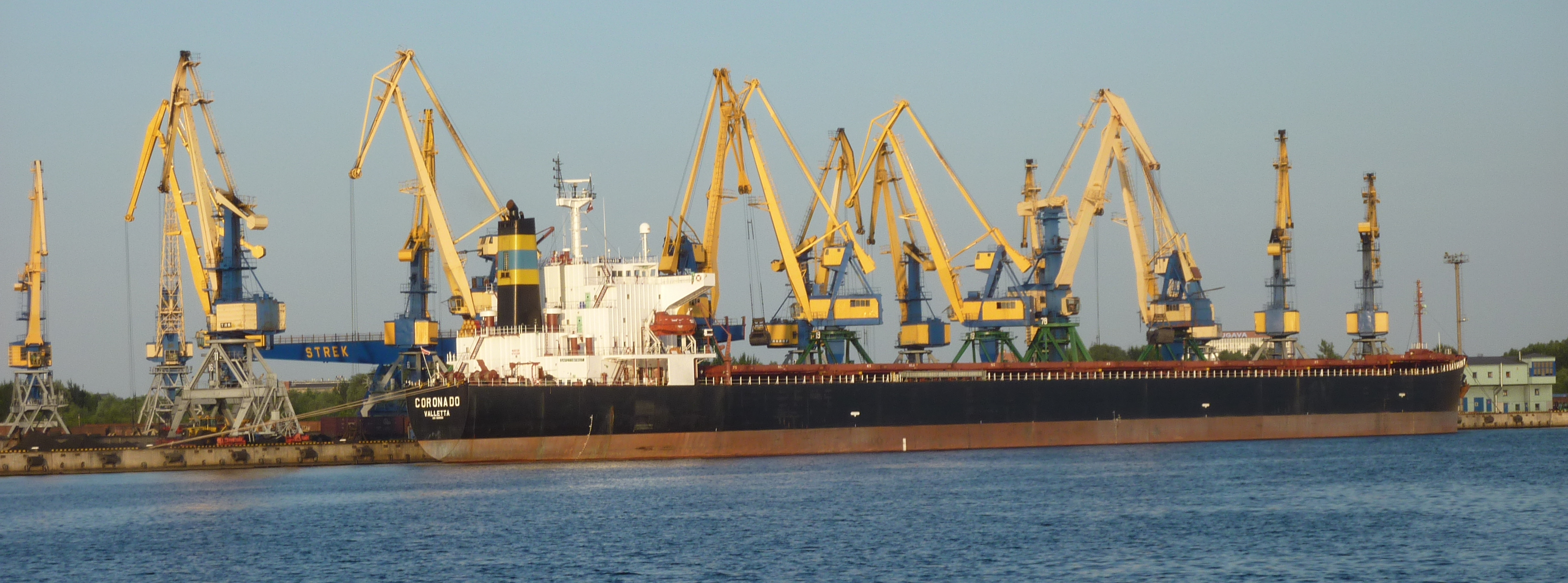 The vessel Coronado in the port of Riga (Latvia) Call sign: 9HVG7 IMO 9200562 Owner: Malvina Shipping Co Ltd - Athens/Greece Ship manager: Cardiff Marine Inc - Athens/Greece Gross tonnage: 38818 Gt Home port: Valletta Flag: Malta Build: 2000